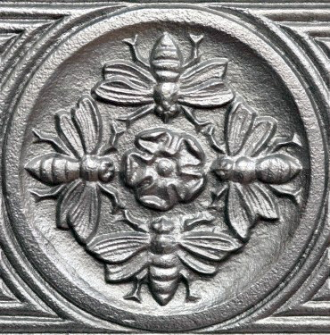 Signature medallion of the foundry firm Barnard, Bishop & Barnards (Ltd.) - the four bees are an allusion to the four partners, 3 Barnards and Bishop